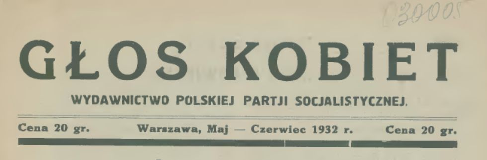 The „Głos Kobiet” magazine logo from 1932.